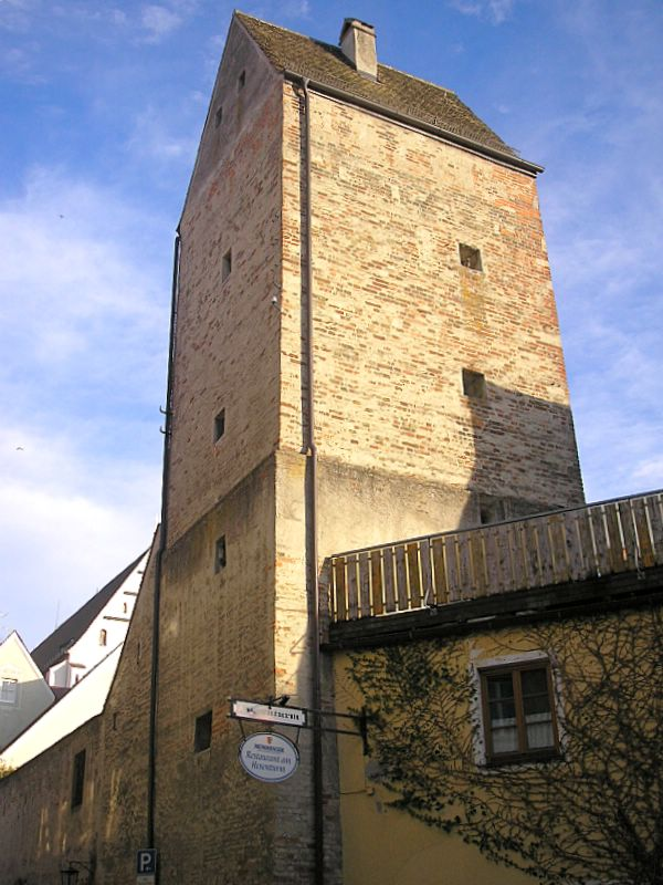 Landsberg am Lech (Oberbayern). „Hexenturm“ der ersten Stadtmauer. Eigene Aufnahme, Okt. 2006 / Landsberg am Lech (Upper Bavaria, Germany). “Hexenturm” (“Witch tower”), part of the first city wall. Own photo, Oct. 2006